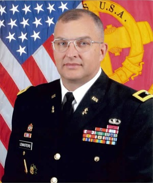 Brig. Gen. Clark W. LeMasters Jr.